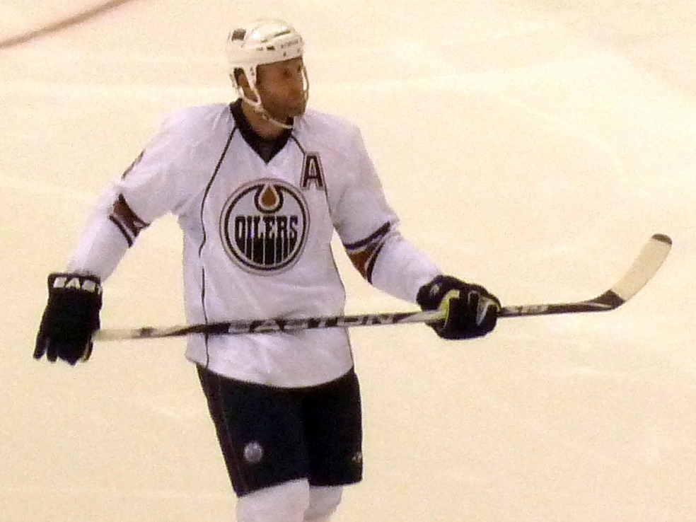 Edmonton Oilers defenceman Ryan Whitney during a pre-season game against the Vancouver Canucks on September 22, 2010.